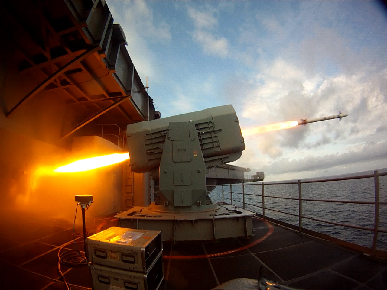 ATLANTIC OCEAN (Aug. 19, 2014)The aircraft carrier USS Theodore Roosevelt (CVN 71) launches a Rolling Airframe Missile (RAM). The RAM was tested to ensure its combat readiness, and ability to defend against anti-ship cruise missiles and other asymmetric threats. Theodore Roosevelt is underway conducting training and preparing for future deployments. (U.S. Navy photo/Released) 140818-N-ZZ999-003 Join the conversation